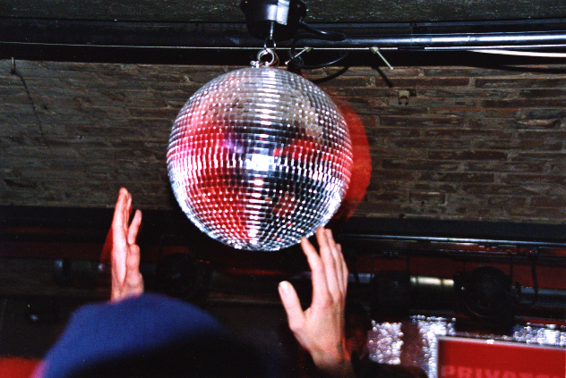 Foto: By myself. All permissions for publishing is given from the model.